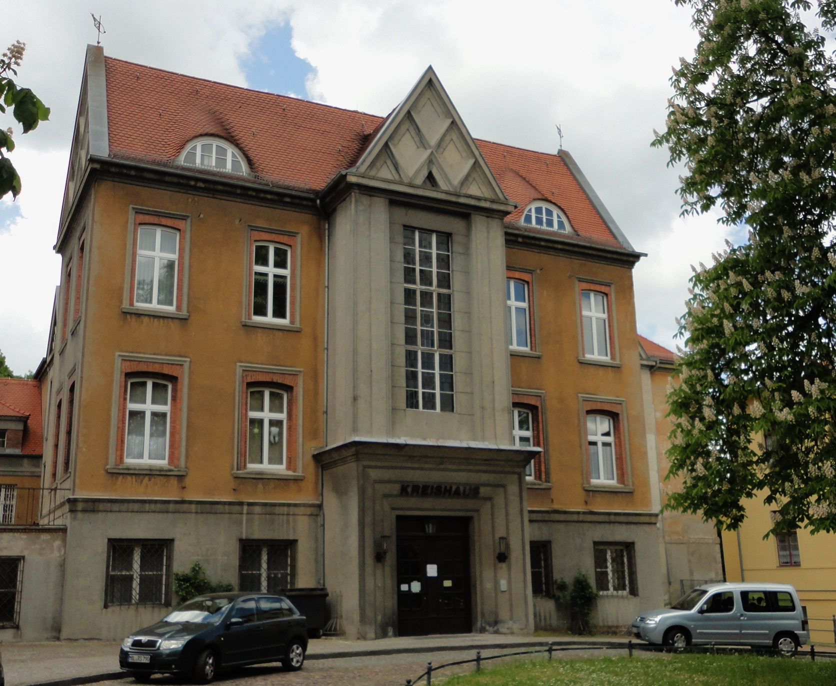 Former district government of Bad Freienwalde, Brandenburg state, Germany